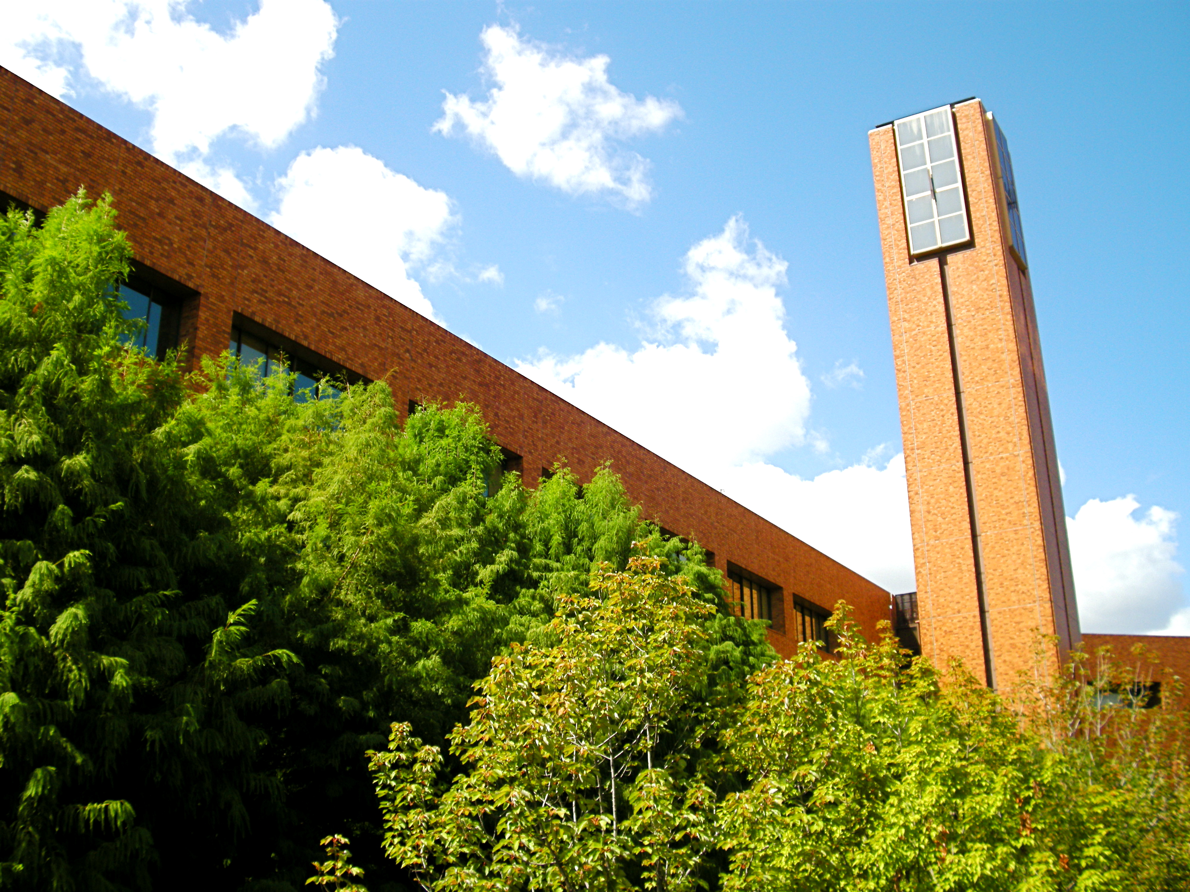 Clock Tower of Osaka Gakuin University (Osaka, Japan)